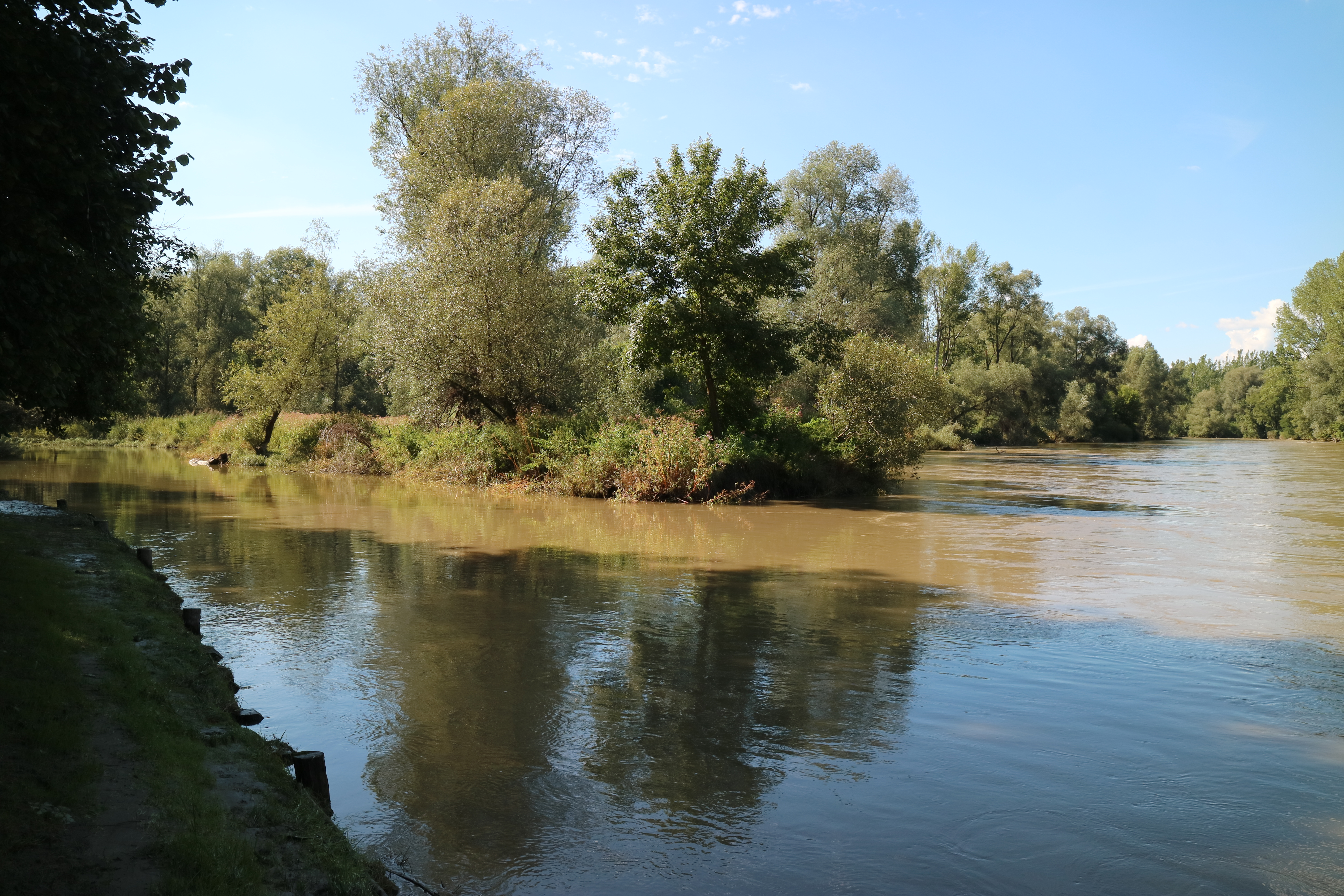 Ščavnica estuary into Mura (Mur), Slovenia